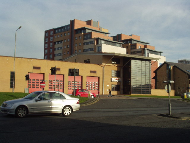 Fire Station, Kirkstall Road, Leeds.